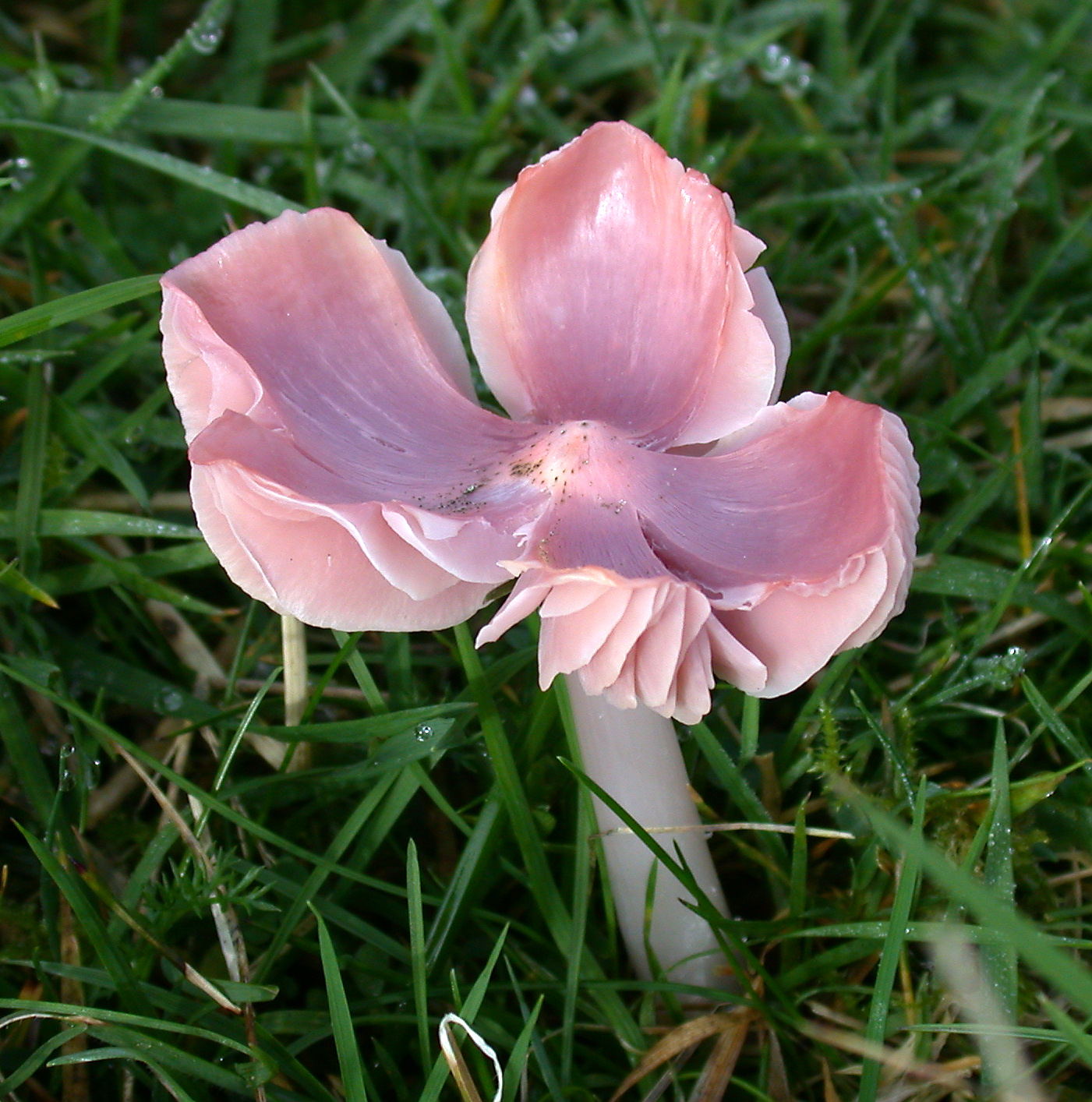 Hygrocybe calyptraeformis Image location: Keswick, Cumbria, England Recognized by sight For more information about this, see the observation page at Mushroom Observer.